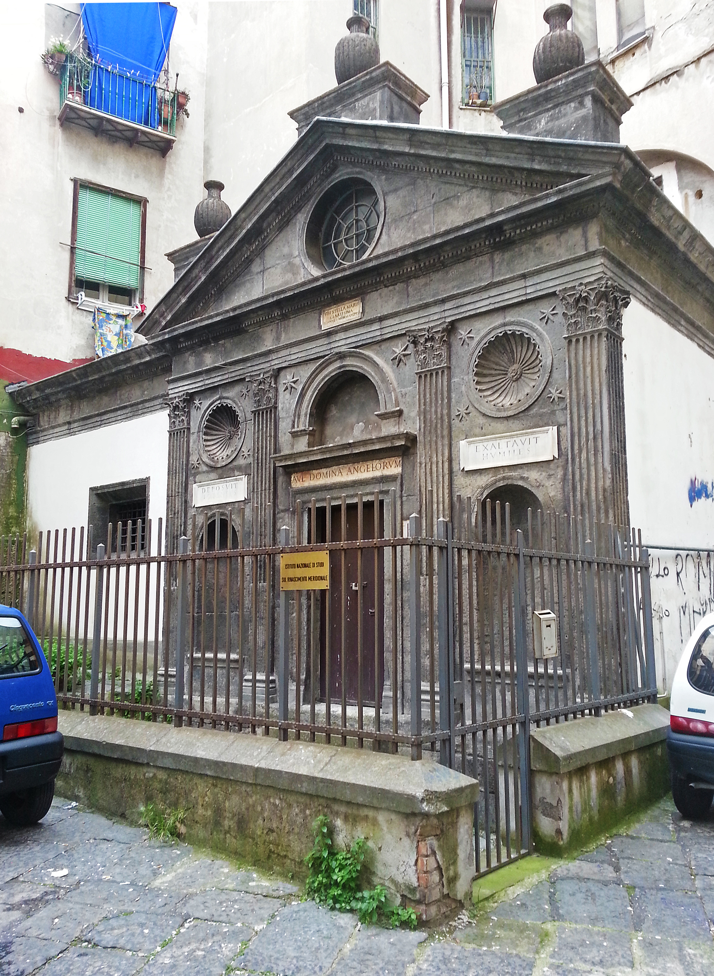 Facade